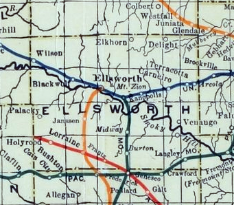 Stouffer's Railroad Map of Kansas, 1915-1918, Ellsworth County.